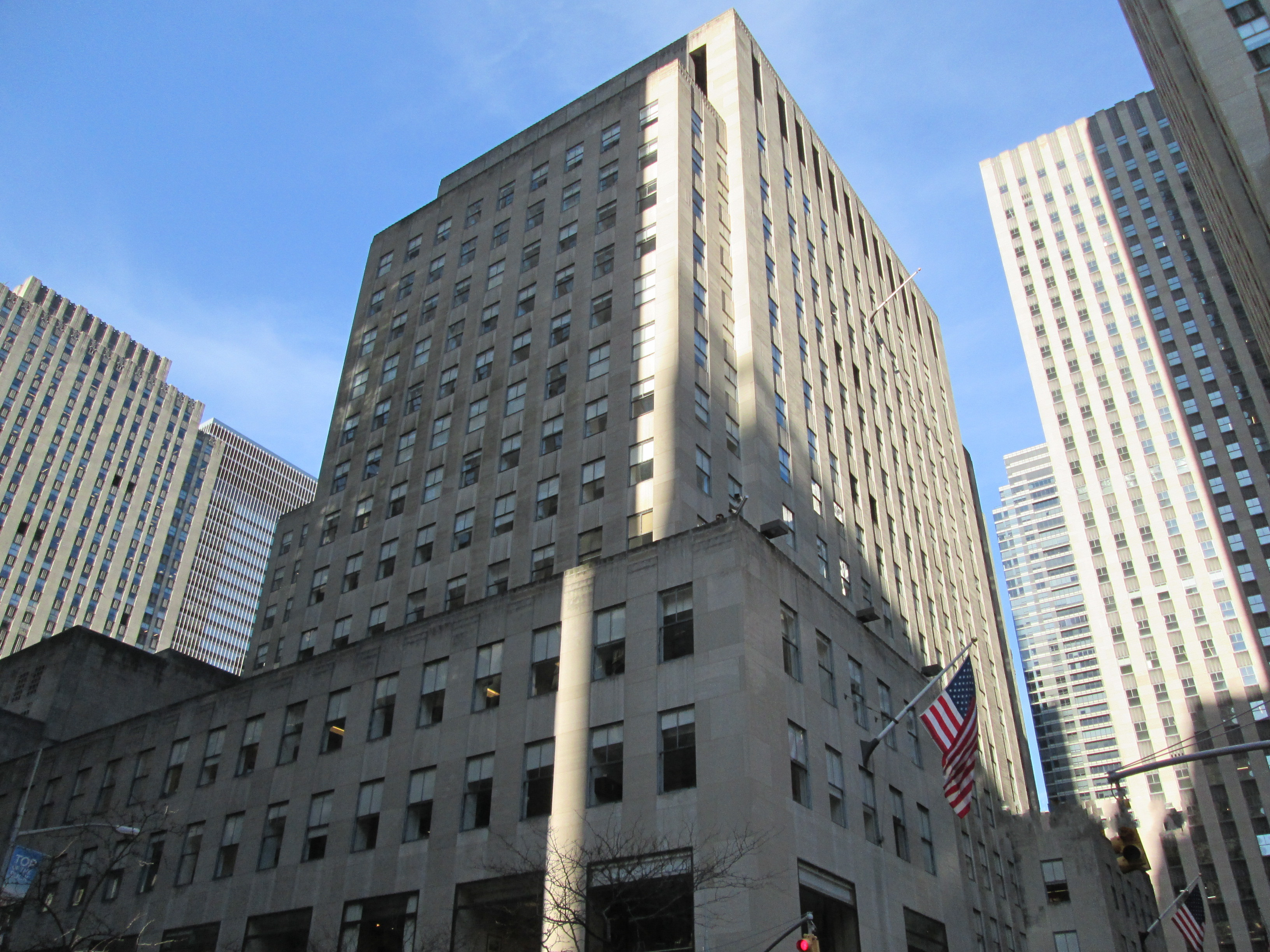 50 Rockefeller Plaza, as seen in January 2018